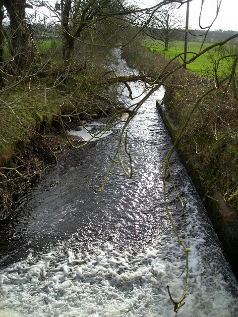 Duncow Burn, Duncow